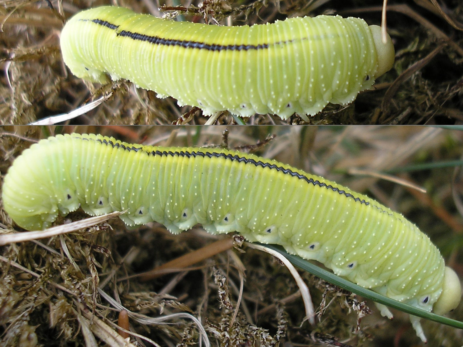 Birch Sawfly Larva (Cimbex femoratus) - walking on the ground (fell from tree?). Location: Motorway rest area "Lucasgat" near Apeldoorn, Netherlands. Keywords: wildlife, nature, insect, symphyta, woods, woodland, birch, sawfly, summer, green, larvae, caterpillar, grub.